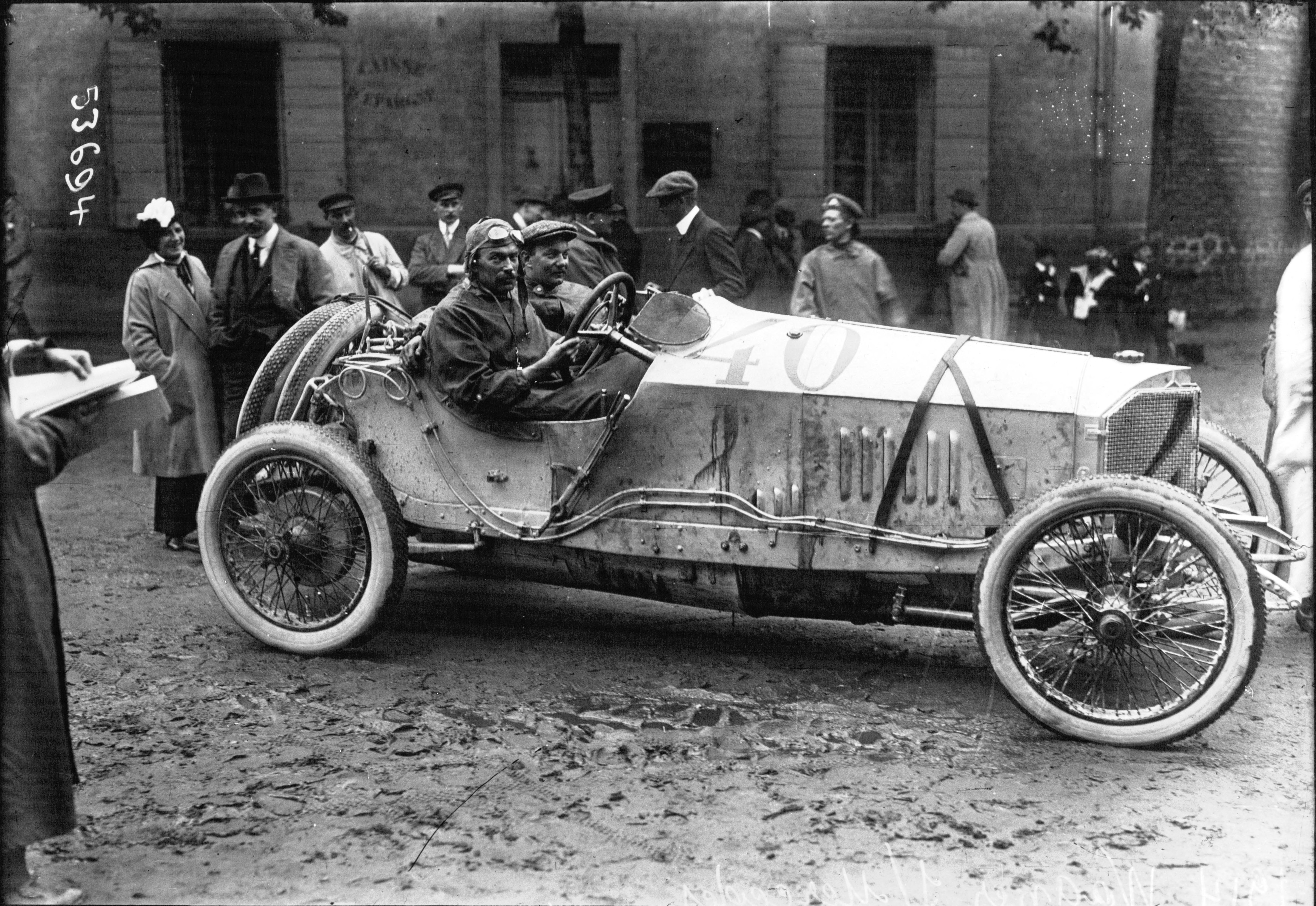 Louis Wagner at the 1914 French Grand Prix